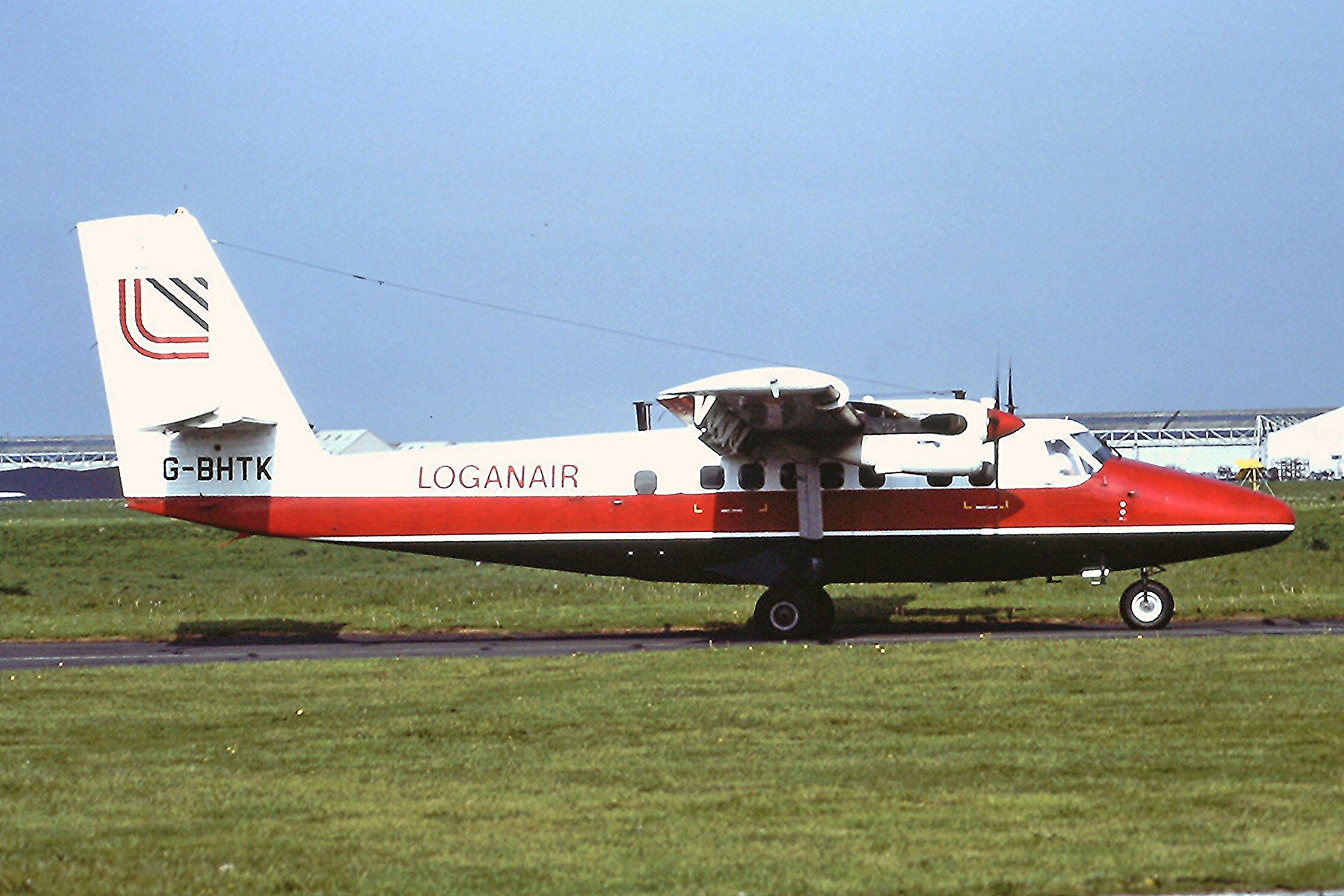 G-BHTK DHC-6-319 Twin Otter Loganair Coventry 23-05-1984